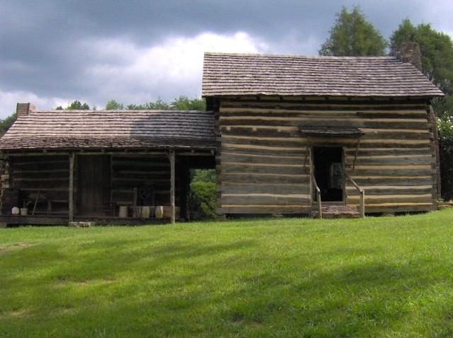 The John Sevier Cabin at Marble Springs in Knox County, Tennessee, in the southeastern United States. Originally thought to have been built by John Sevier, recent investigations of the cabin's logs show it was likely built in the 1830s, possibly by a tenant named George Kirby.